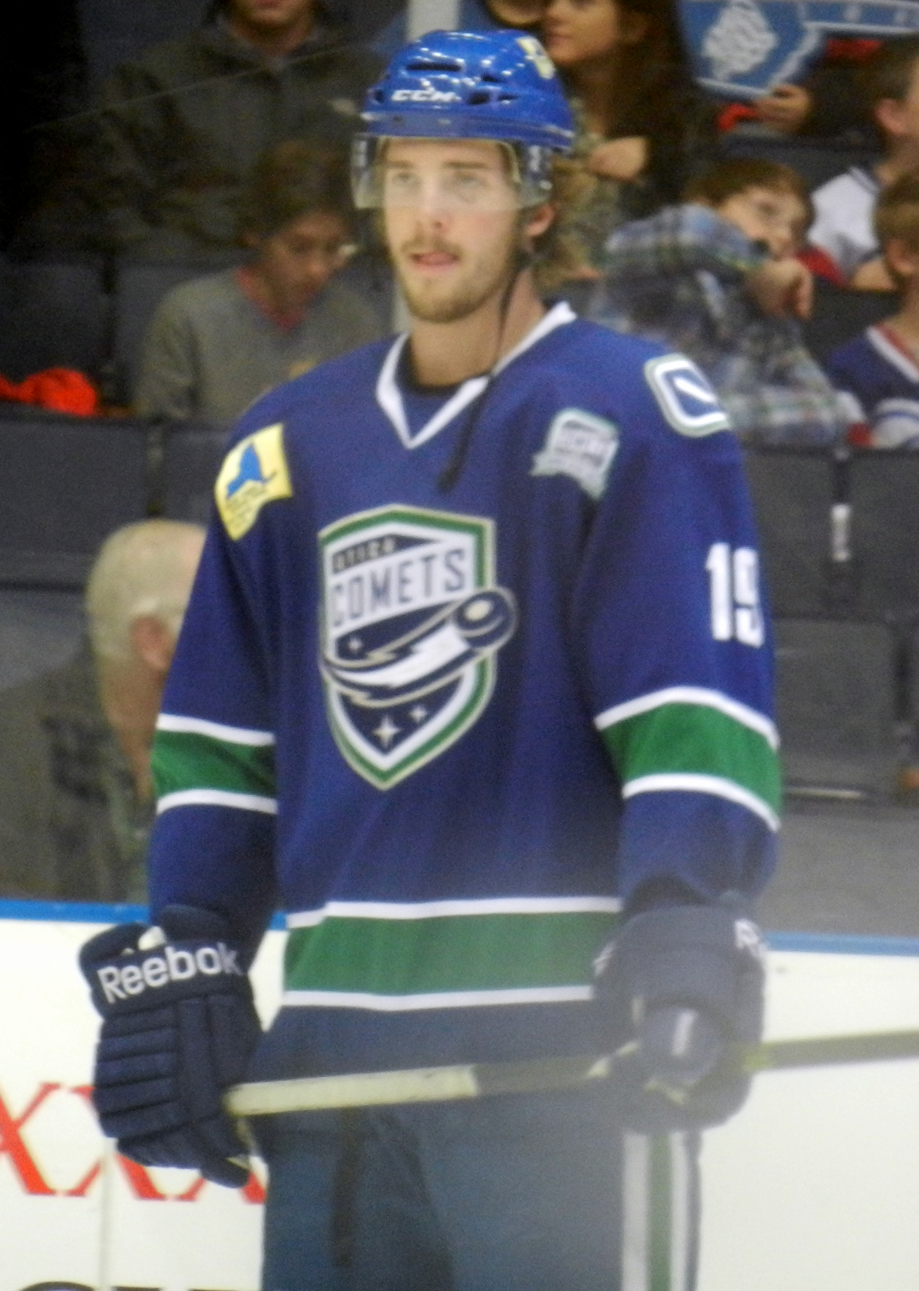 Kellan Lain playing for the American Hockey League's Utica Comets during the 2013-14 AHL season